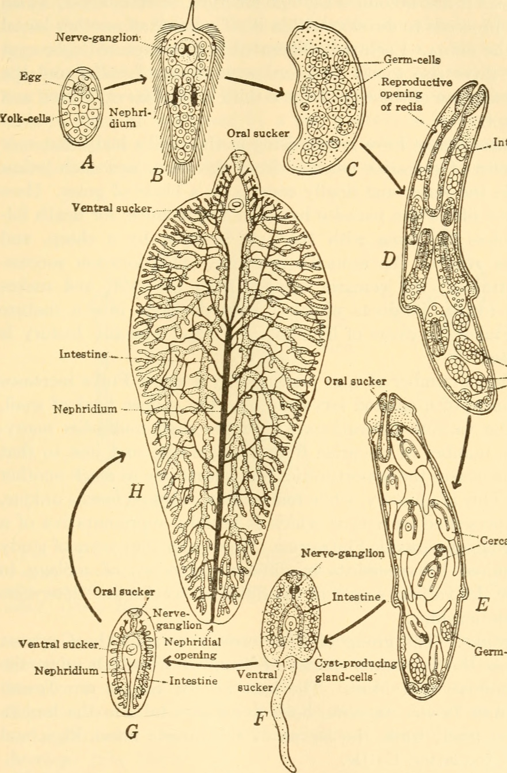 Title: Animal biology Year: 1938 (1930s) Authors: Woodruff, Lorande Loss, 1879-1947 Subjects: Biology; Zoology; Physiology Publisher: New York The Macmillan company Text Appearing Before Image: BIOLOGY AND HUMAN WELFARE 397 Proboscis (extruded) Nerve-ganglion Text Appearing After Image: ..Intestine -Germ-cells Cercaria Ventral Backer Nephridium Germ-cells Fig. 251.—Life history of the Liver Fluke, Fasciola hepatica. A, 'egg'; B, miracidium; C, sporocyst; D, E, rediae; F, cercaria; G, encysted stage; H, adult (nervous and reproductive systems omitted). (From Hegner, after Kerr.)